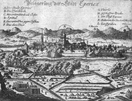 Prešov